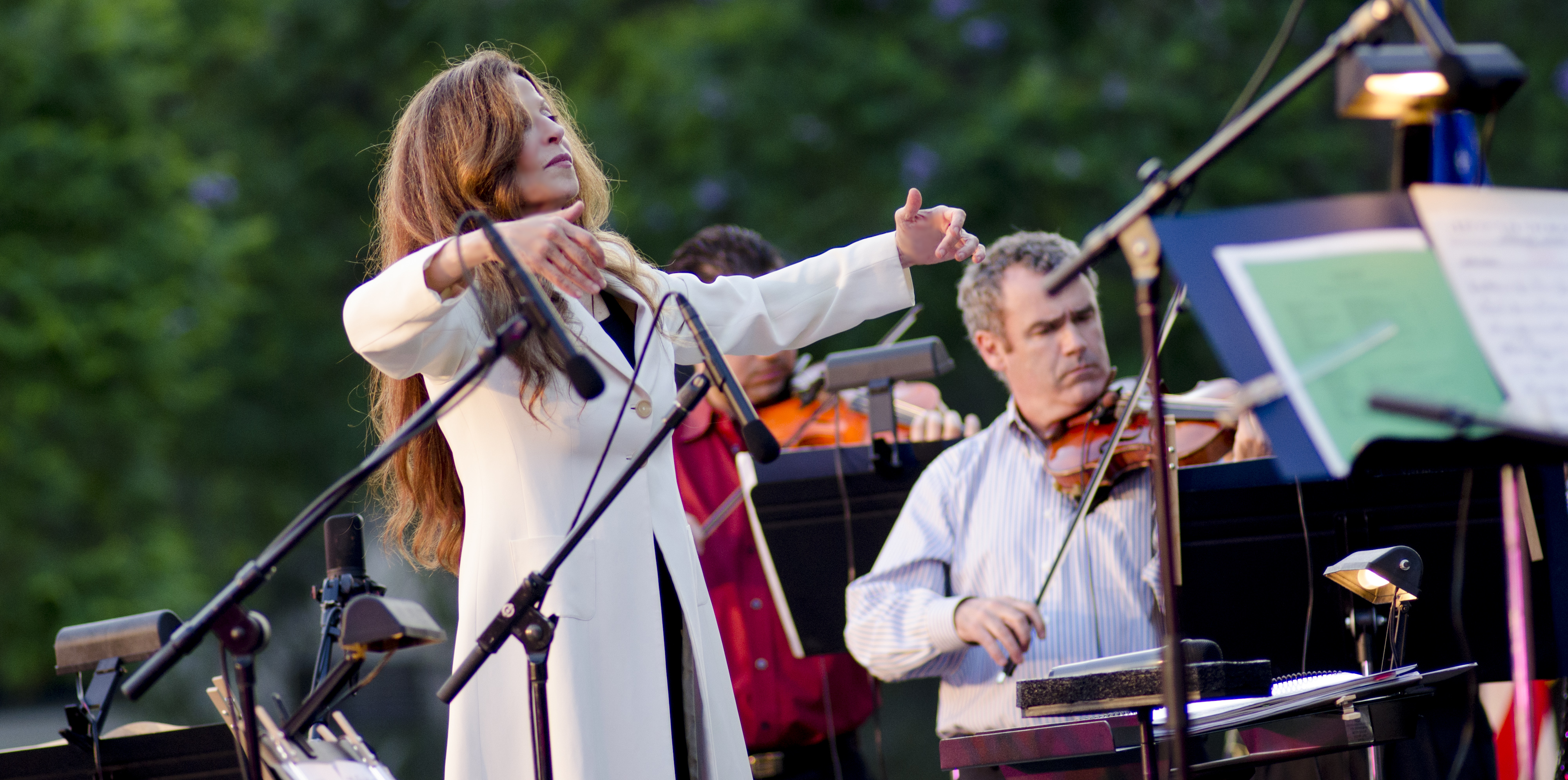 Rachael Worby conducts the MUSE/IQUE Orchestra at a summer event at Caltech. Photo captured by Ben Gibbs.